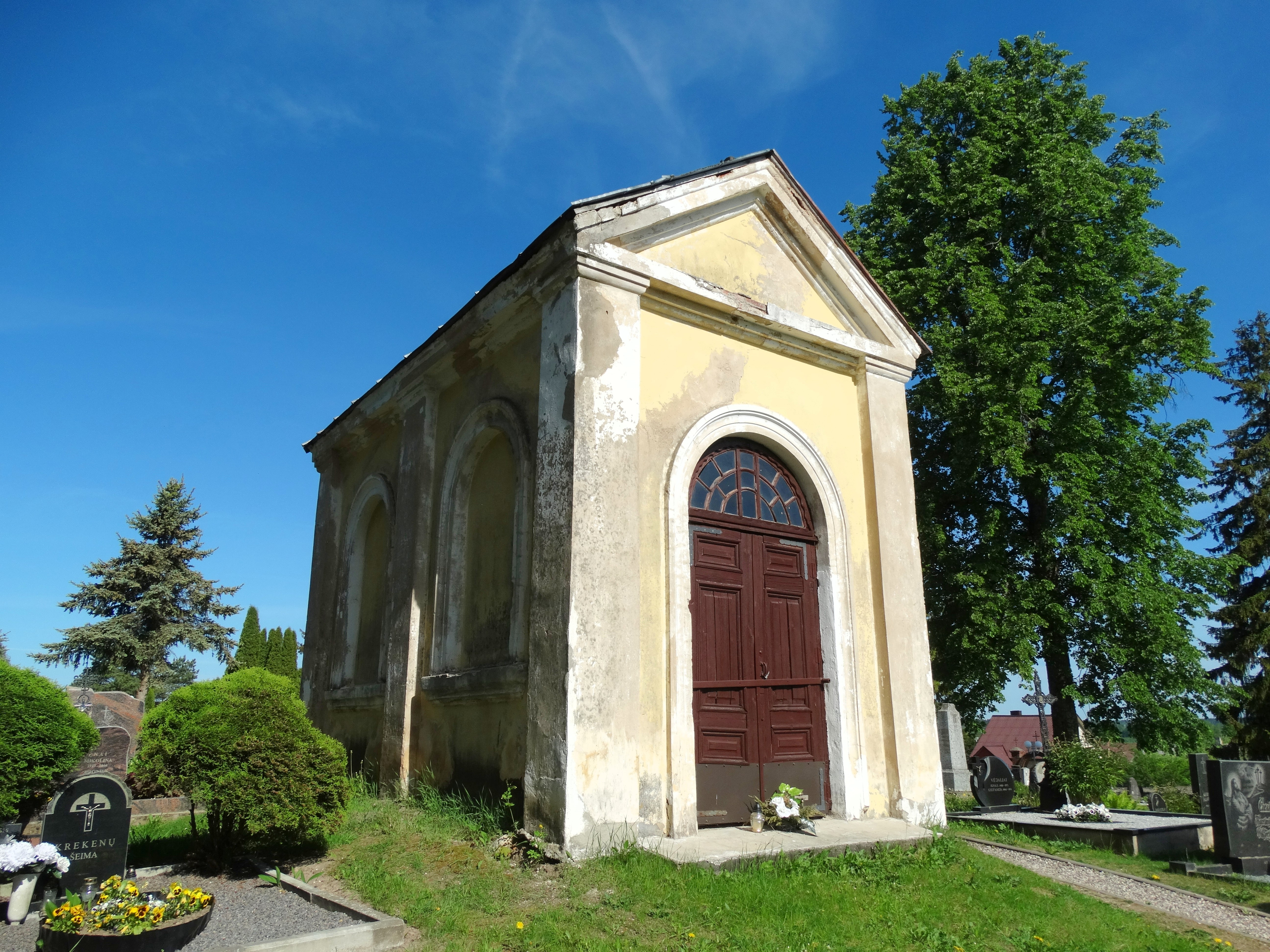 Videniškiai, chapel, Molėtai district, Lithuania